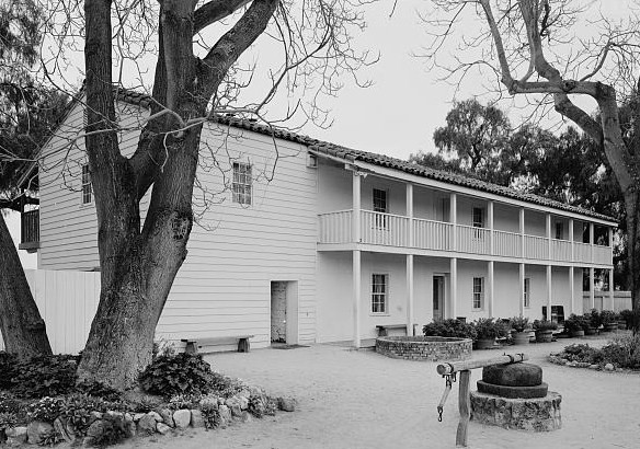 General Jose Castro House, Mission Plaza, San Juan Bautista (San Benito County, California) - (cropped). More images Historic American Buildings Survey—HABS image.